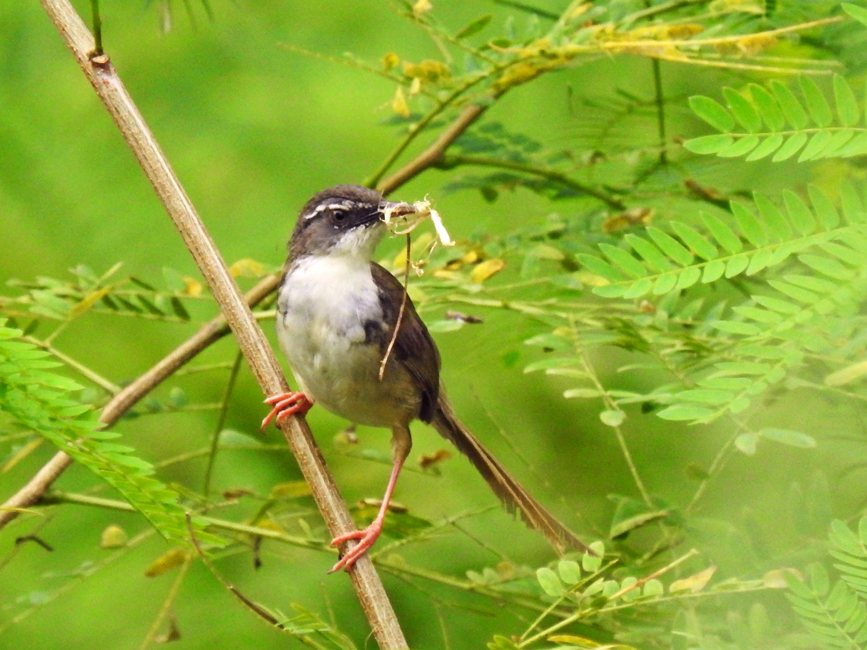 Hill prinia, Prinia superciliaris dysancrita, male: bringing nest material from Leucaena leucocephala treelets. From Galang, North Sumatra, Indonesia.